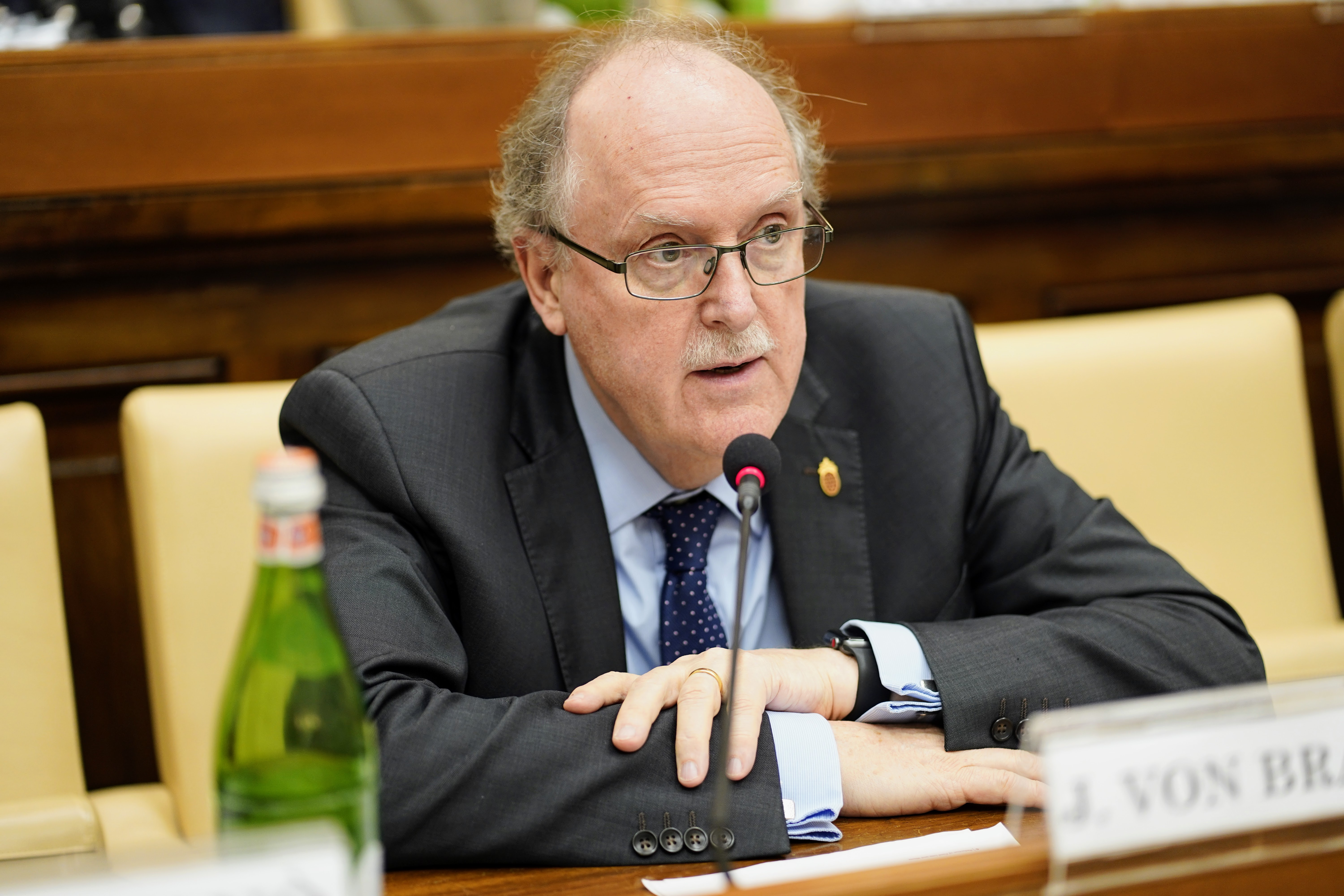 A portrait of Professor Joachim von Braun, President of the Pontifical Academy of Sciences, chairing a meeting at the PAS in November 2019